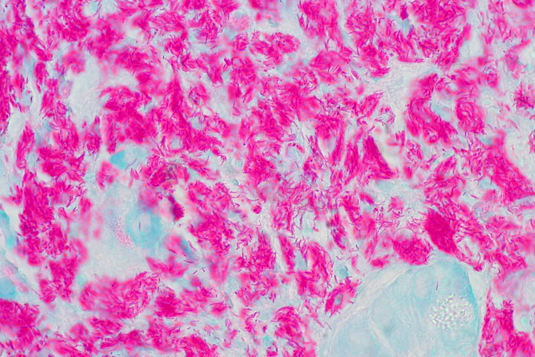 This is an HIV-positive patient who showed nodules in the duodenal mucosa on endoscopic exam. Microscopically, the lamina propria was stuffed with wall-to-wall histiocytes. This Kinyoun carbolfuchsin stain shows innumerable acid-fast bacilli Pathological and histological images courtesy of Ed Uthman at flickr.